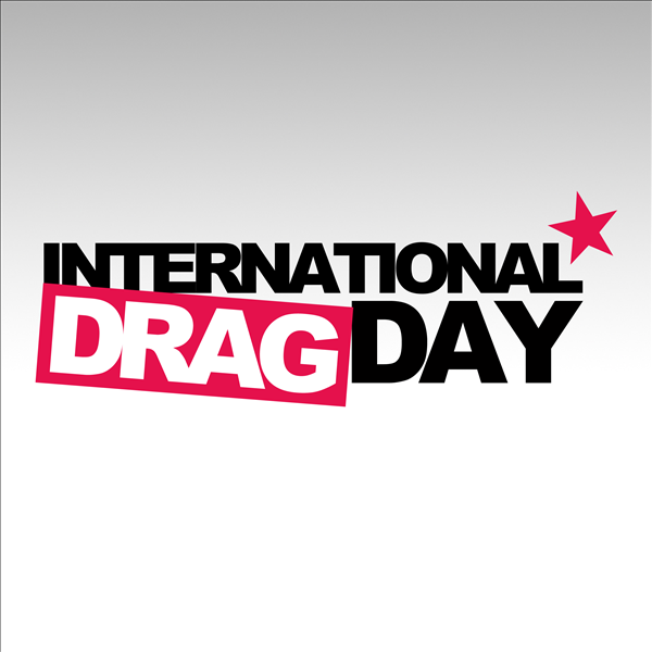 International Drag Day logo for 2010